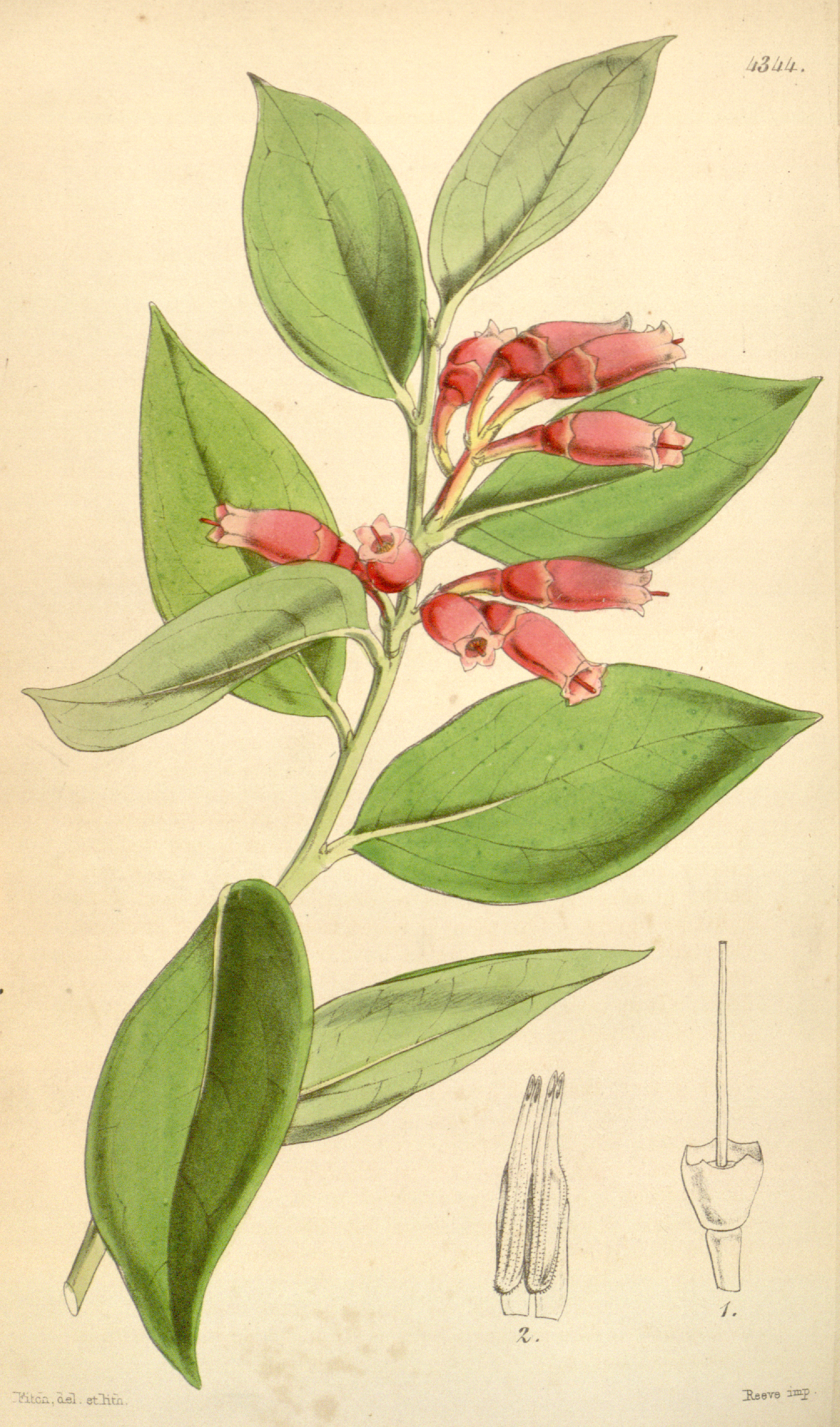 This is a plate from Curtis's Botanical Magazine, Volume 73.